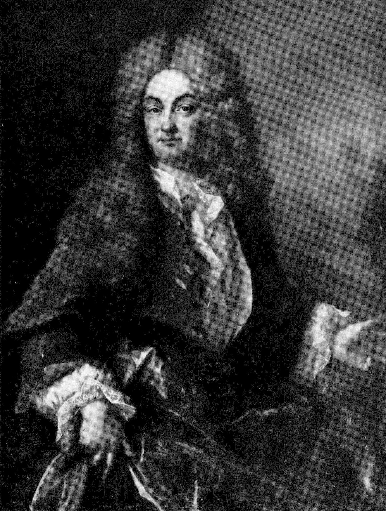 Ernst Johan Creutz (1675-1742). Photo of oil painting by George Desmarées.